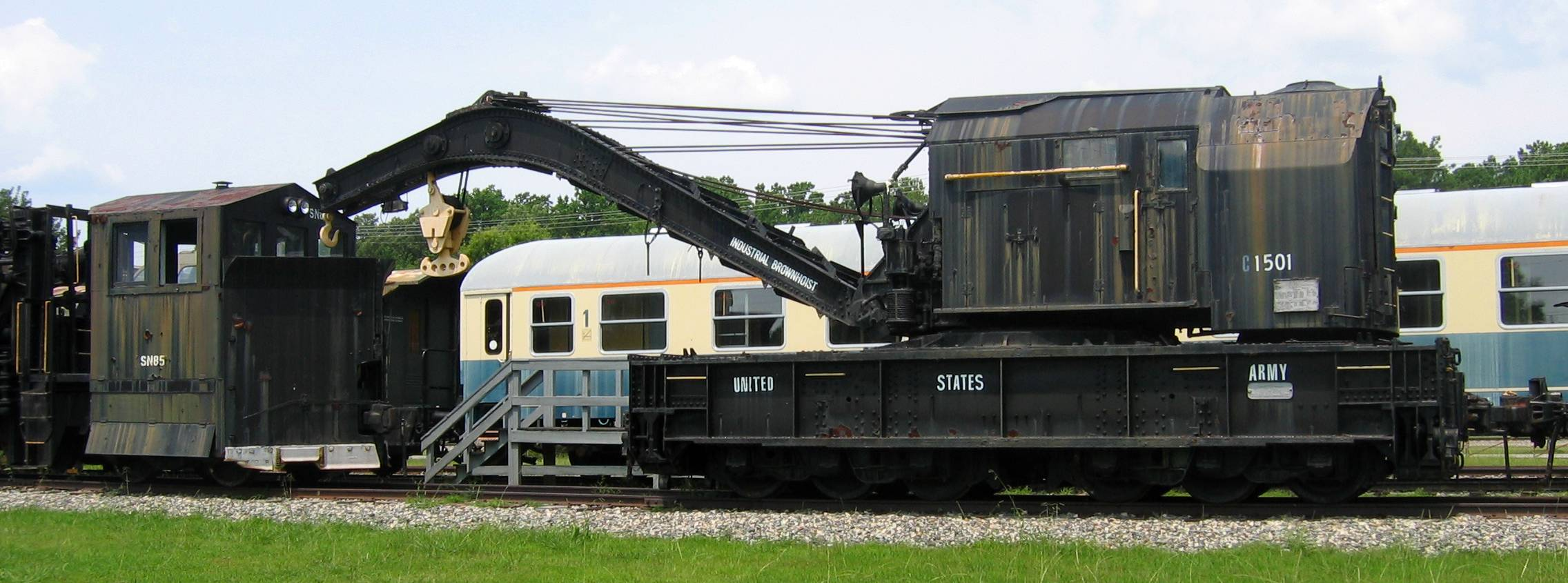 I took this photograph and I own it, and I release it to the public domain. For some reason, I can not get the "You created this . . ." license to "take" when I upload this image.